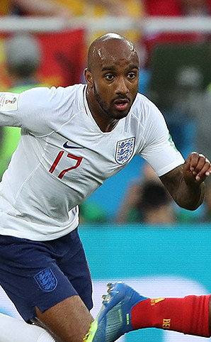 England v Belgium at the 2018 FIFA World Cup